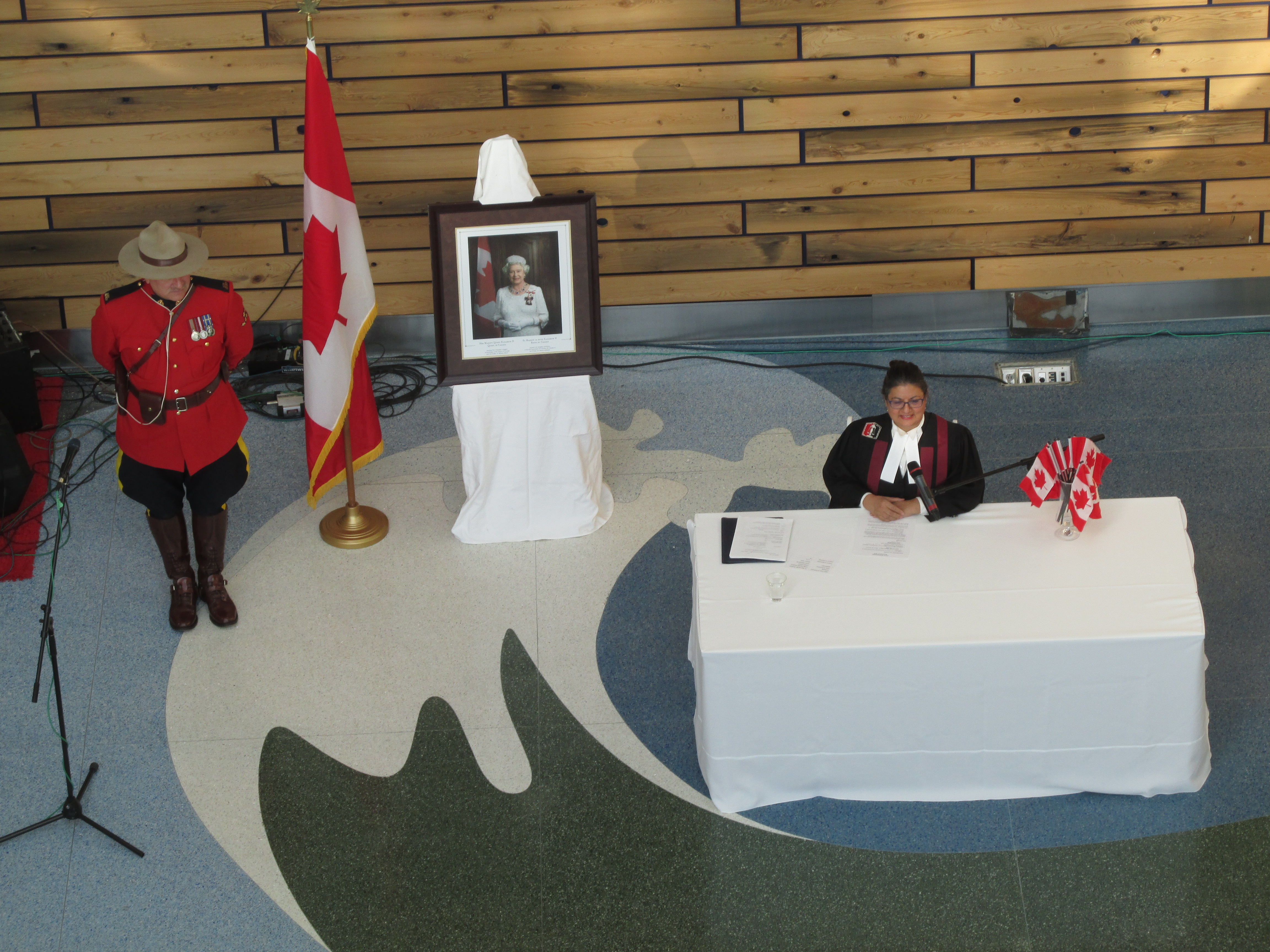 A Canadian citizenship ceremony at Corus Quay. Justice Hardish K. Dhaliwal presiding.